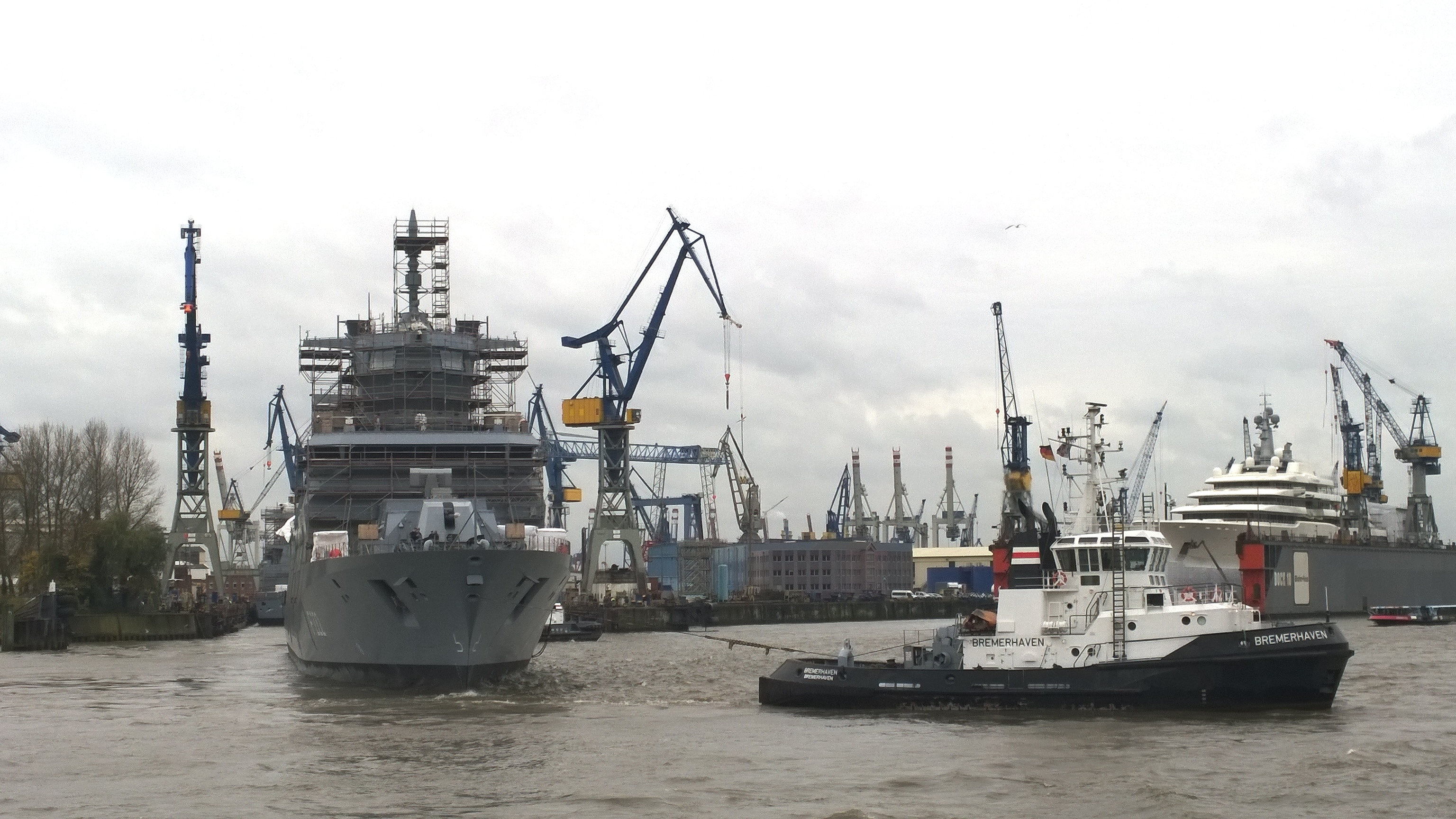 The frigate is slowly drawn from the rear tractor into the dock, while the head tug keeps the ship on course